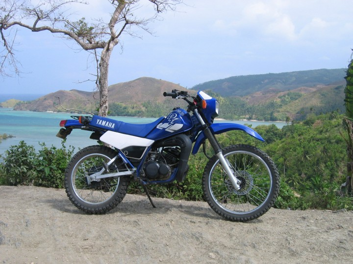 Yamaha DT 125 Motorcycle